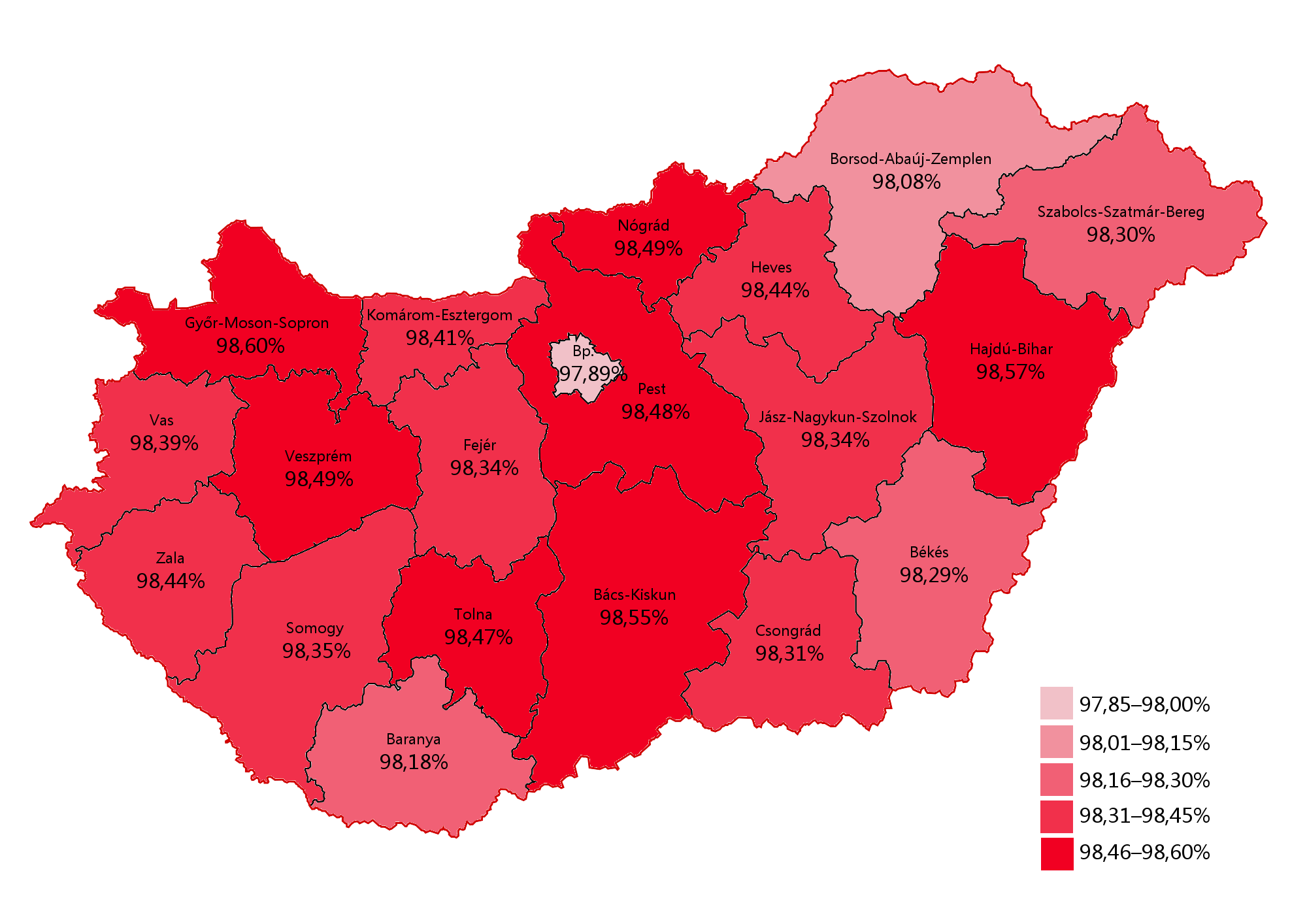 Percentage of "No" votes per counties in Hungarian referendum, 2016